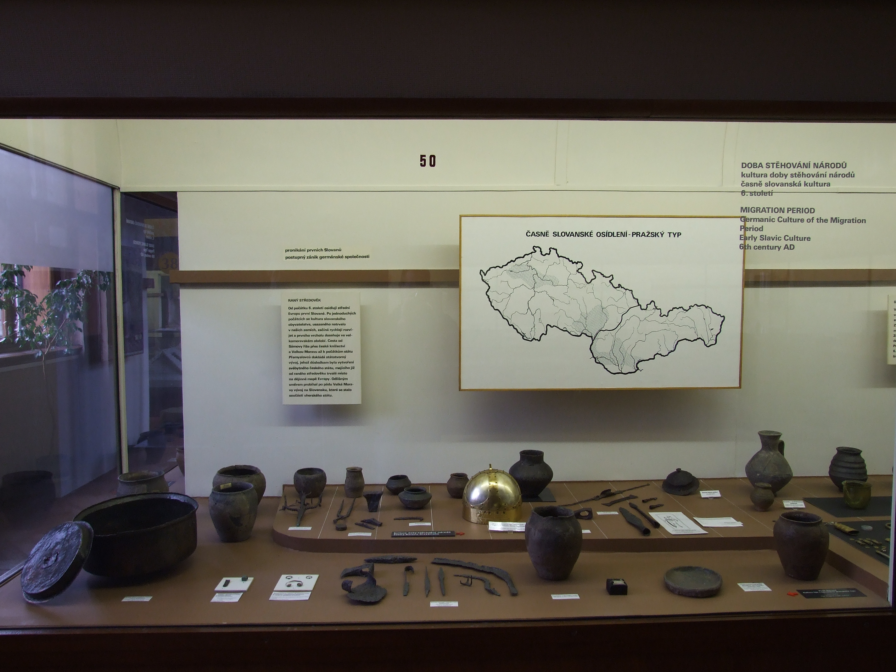 Prehistoric Times of Bohemia, Moravia and Slovakia, National Museum in Prague. Migration Period - Early Slavic Culture; 6th century AD The map shows distribution of Prague-type culture within territory of the Czech Republic and Slovakia.